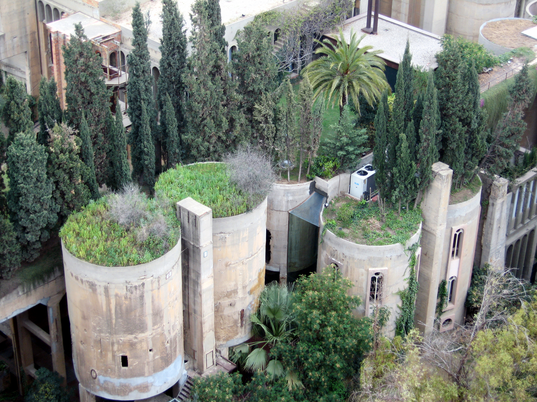 The “Taller d’Arquitectura” from architect Ricard Bofill in Sant Just Desvern (Catalonia).